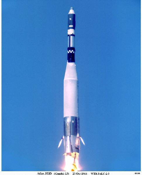 Ascent of Atlas LV-3A Agenda D rocket with KH-7 13 satellite.